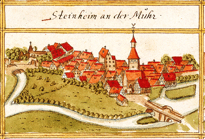 View of Steinheim an der Murr from the forest register books created by Andreas Kieser